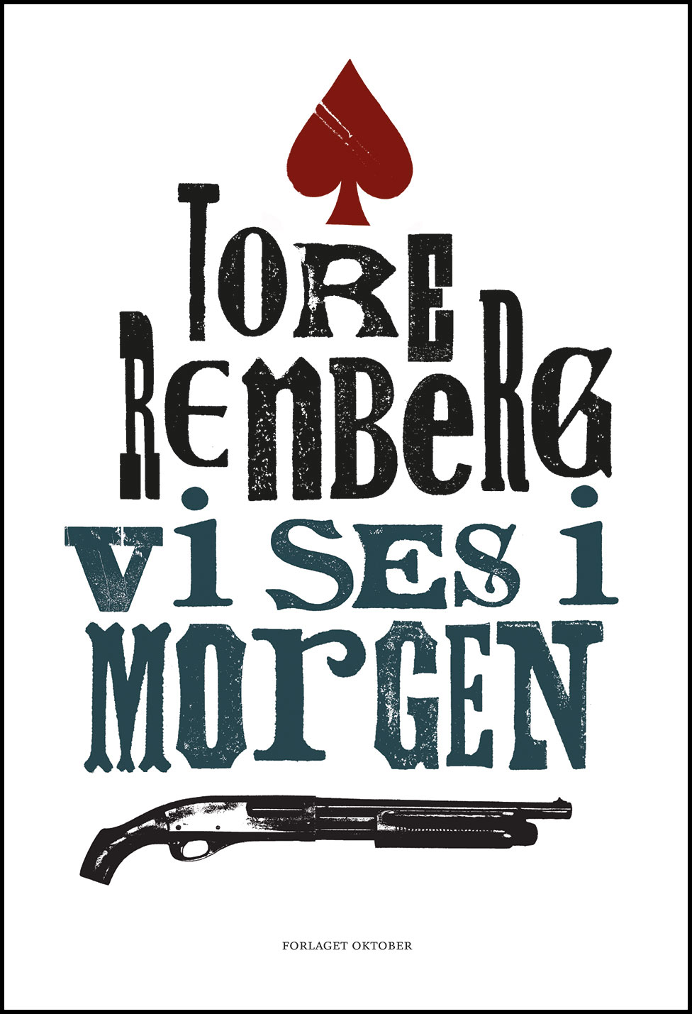 Book cover